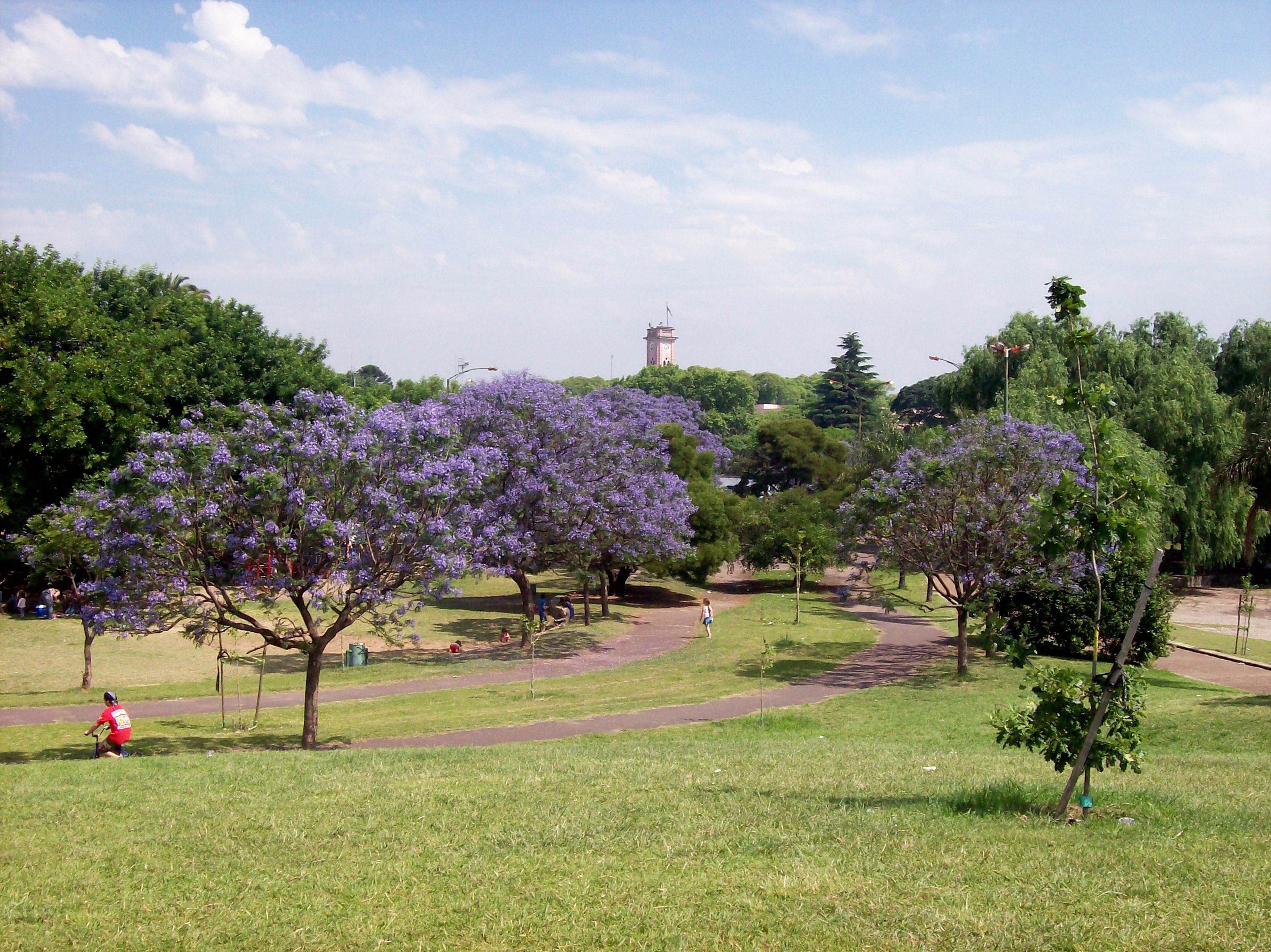 Jacarandá trees, in Alberdi Park, "Barrio de Mataderos", Buenos Aires city.